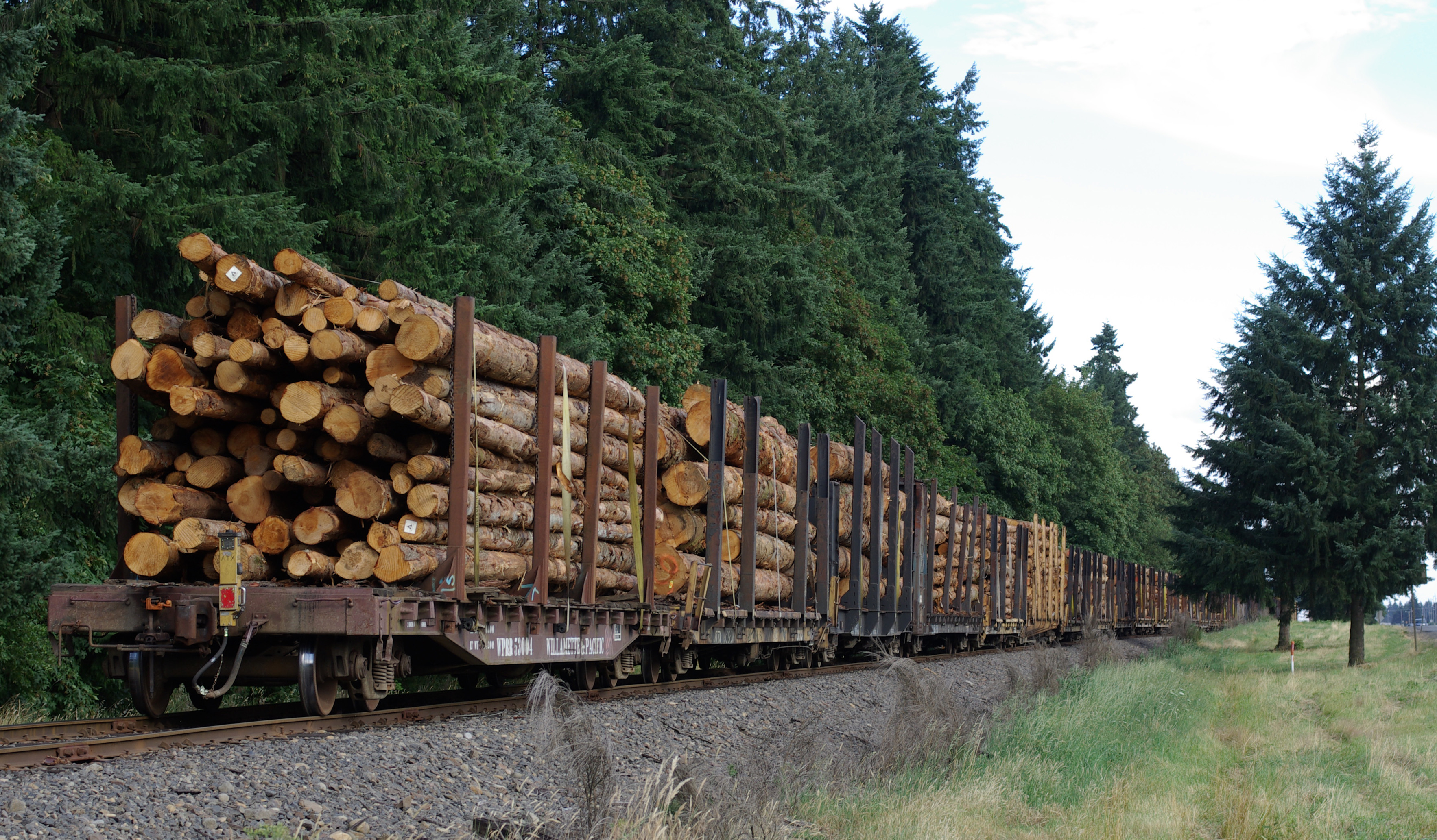 P&W Log train with Western Hemlock near Rainier